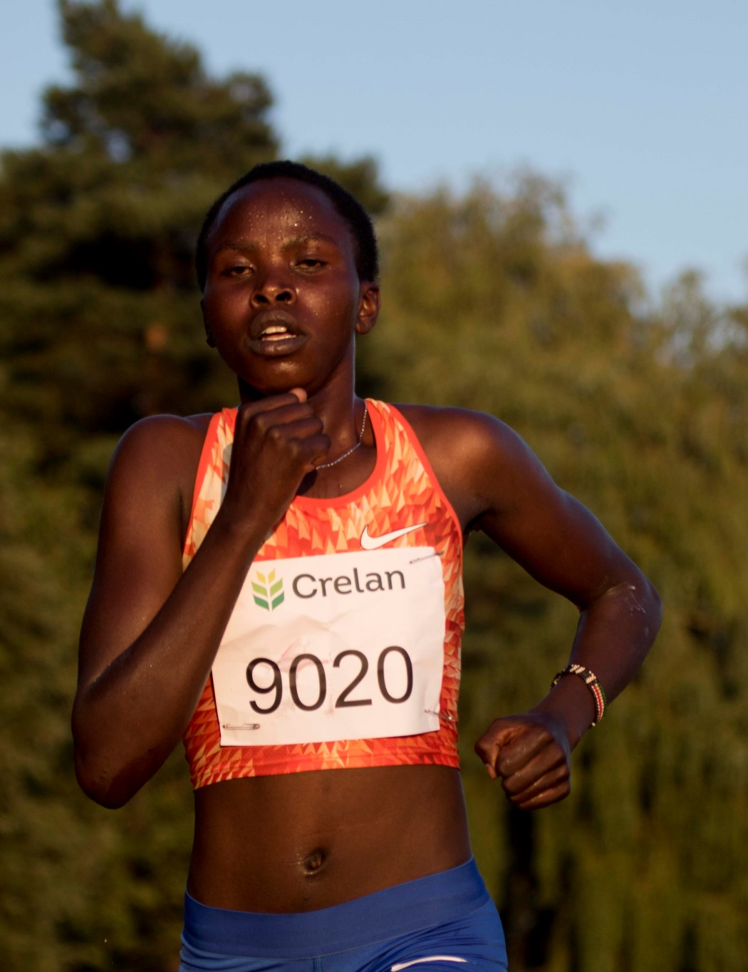 2017 Guldensporenmeeting Kortrijk